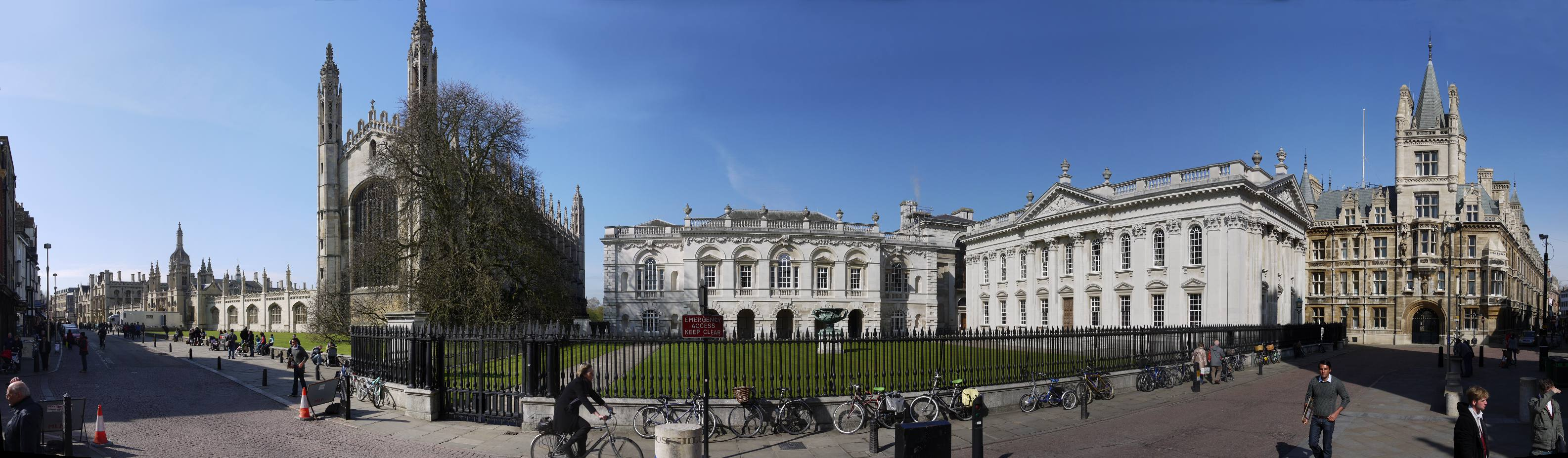 Panorama: King's College at the left, the Chapel, and the Senate House right